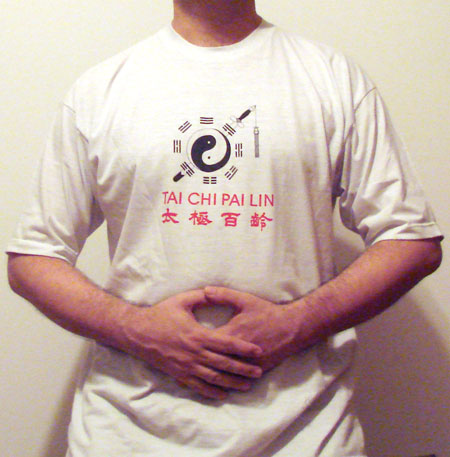 Embracing Tai Chi. Meditation posture, as done in Tai Chi Pai Lin.